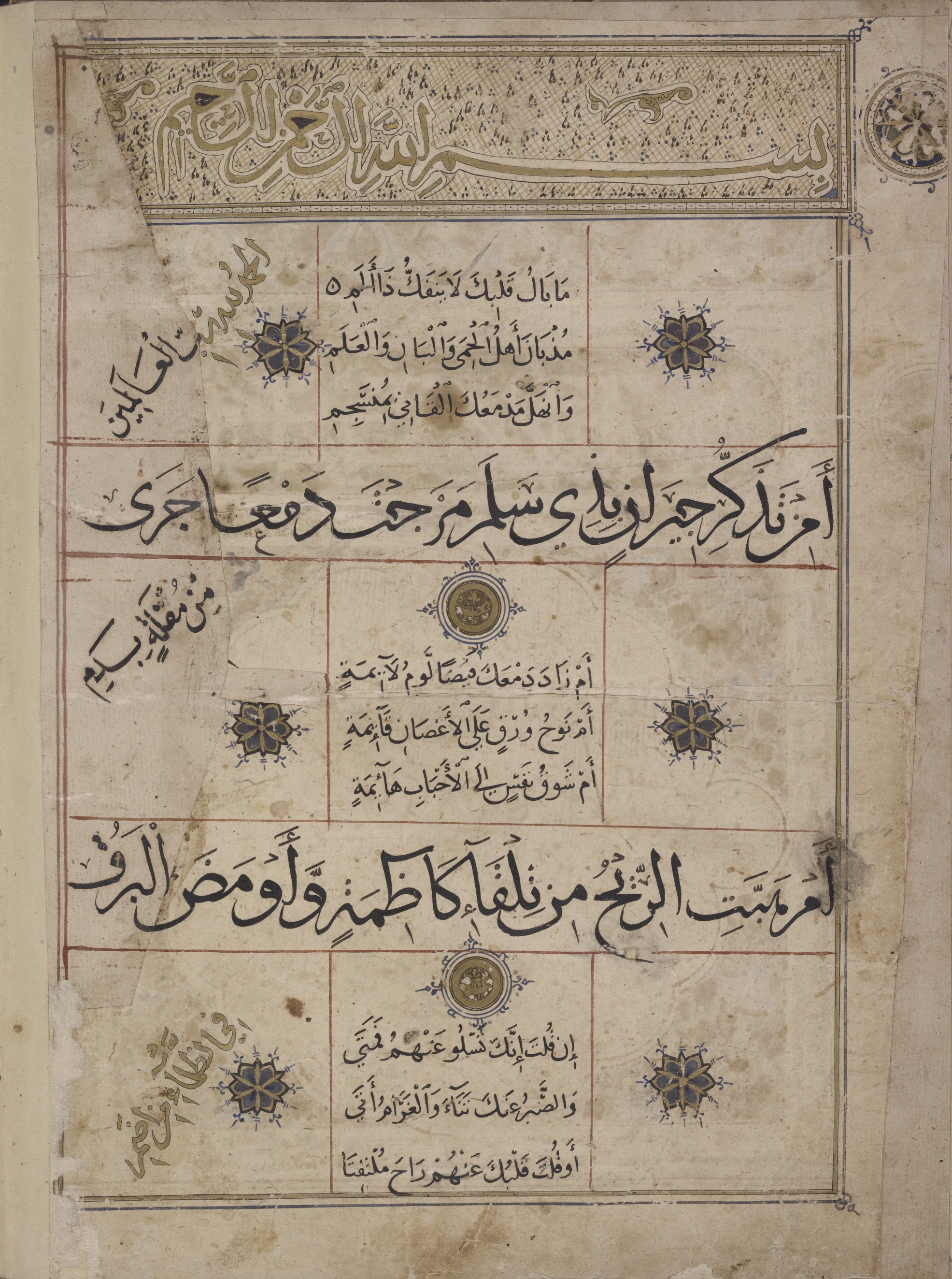 al-Kawākib al-durrīyah fī madḥ khayr al-barīyah, by Būṣīrī, Sharaf al-Dīn Muḥammad ibn Saʻīd. Very fine Mamlūk calligraphy ; saṭr and first words of ʻajuz for each bayt in thuluth, final words of ʻajuz in tawqīʻ and amplification in serifless naskh ; text and takhmīs fully vocalized.